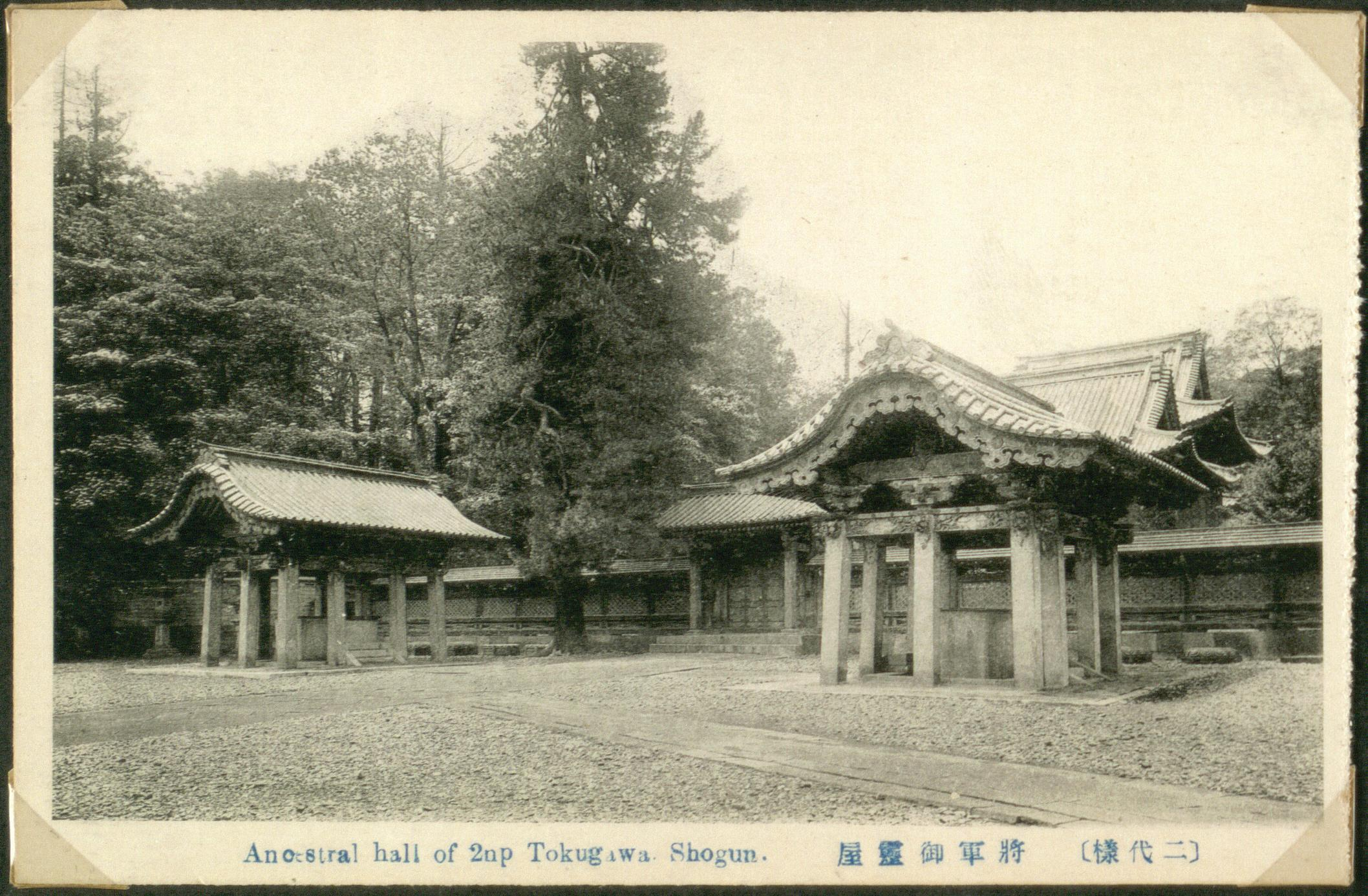 Postcard, which have belonged to Dr Kurt Wulff. No. es_b_00591